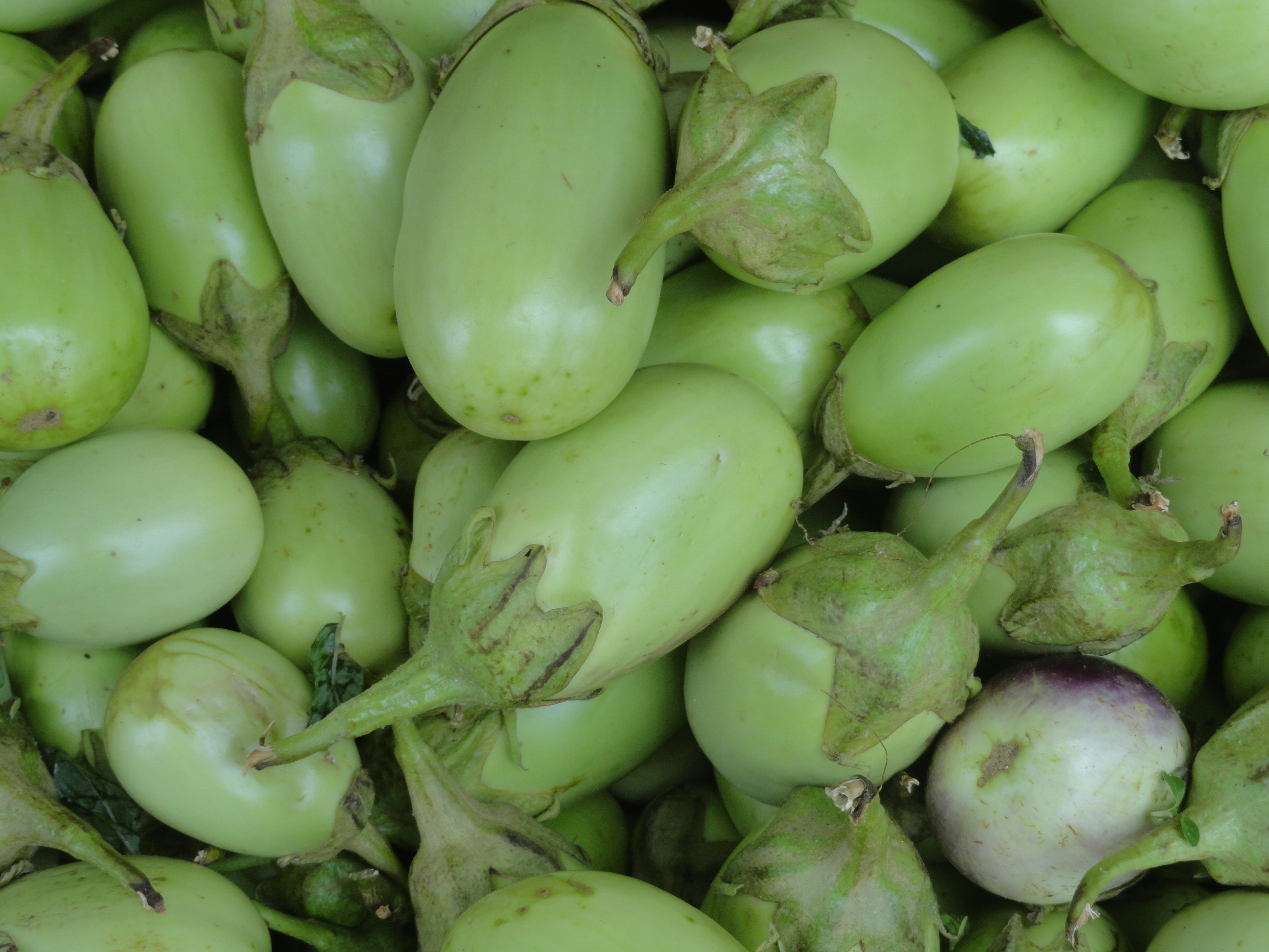 పచ్చని పొట్టి రకం వంకాయలు.